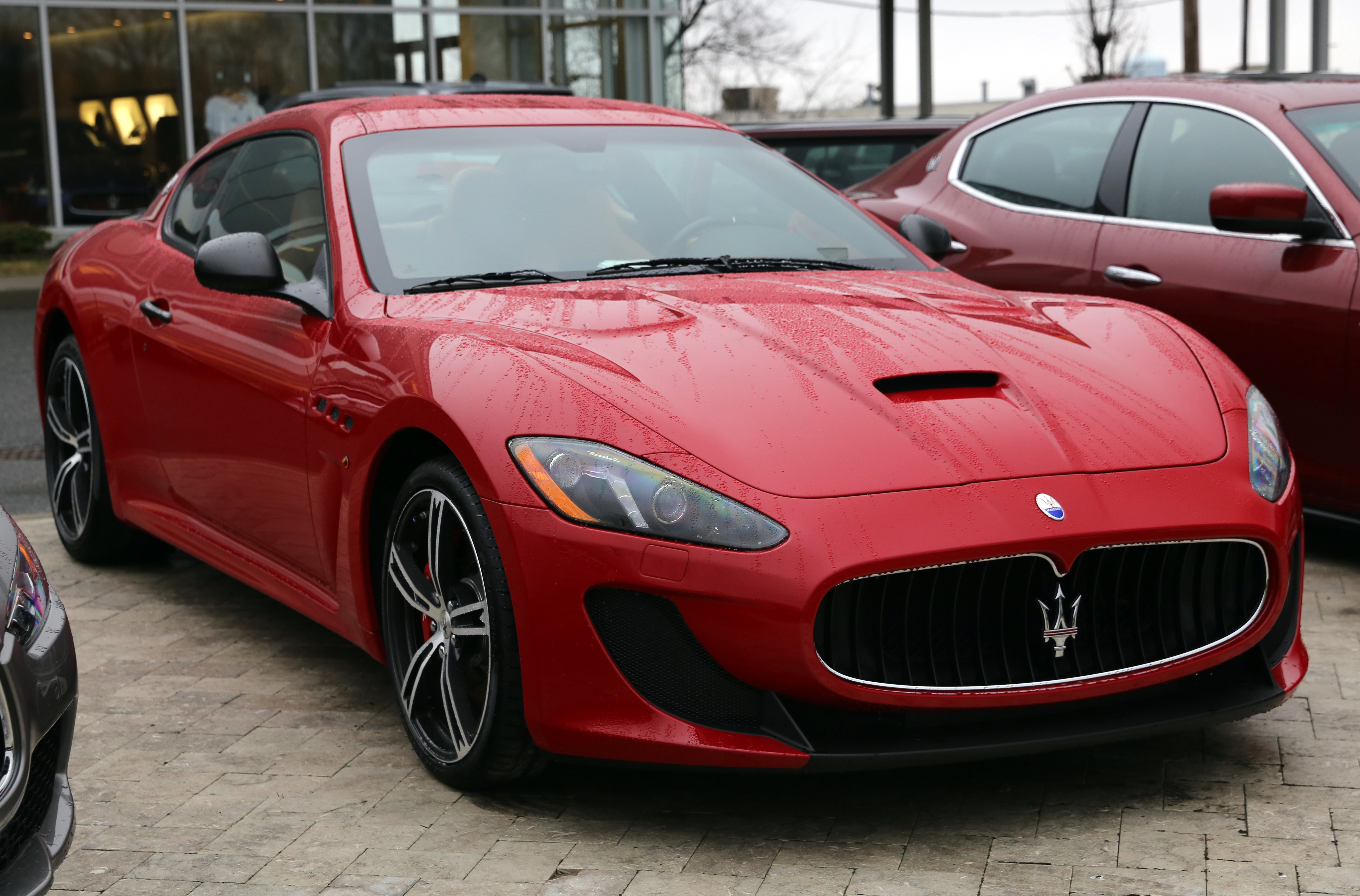 A 2015 Maserati GranTurismo MC (US cars do not carry the "Stradale" moniker, as they don't have the awesome sequential transmission other markets receive). Six-speed automatic transmission.